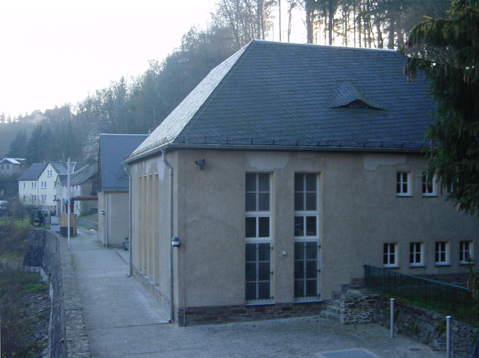 hydro power station Dorfhain, Saxony, Germany